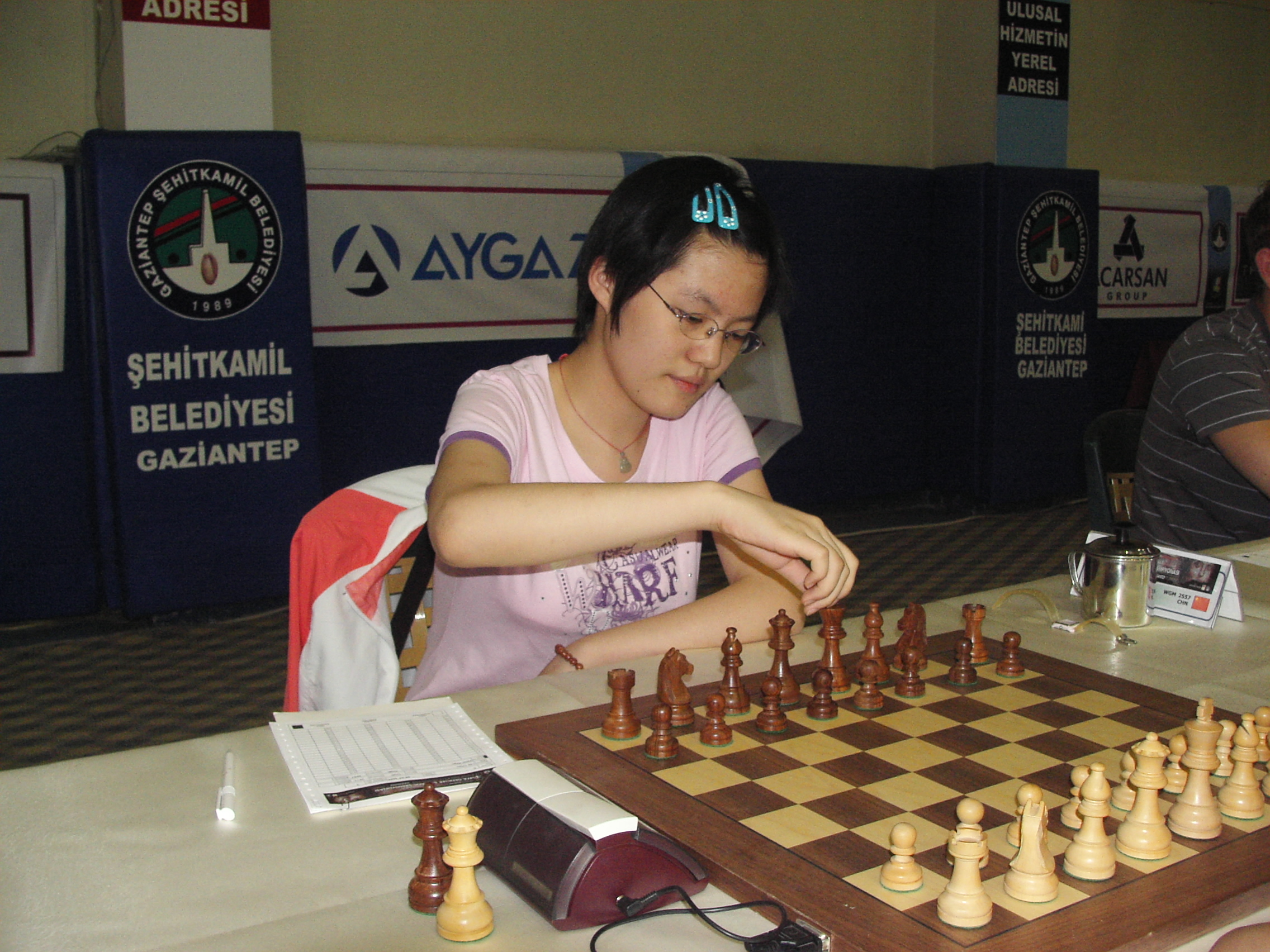 WGM Hou Yifan People's Republic of China, World Junior Chess Championship, Gaziantep 2008